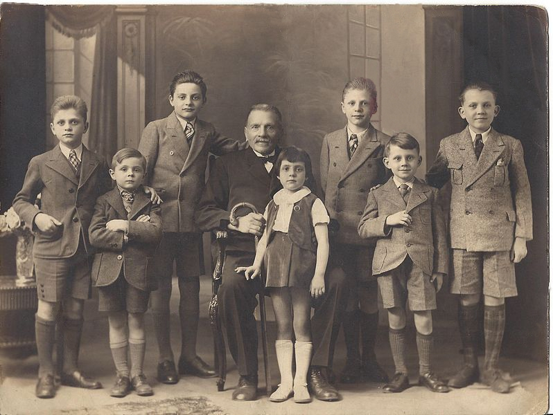 This is a cleaned up version of a previous file (Alfred danhier0001.jpg)